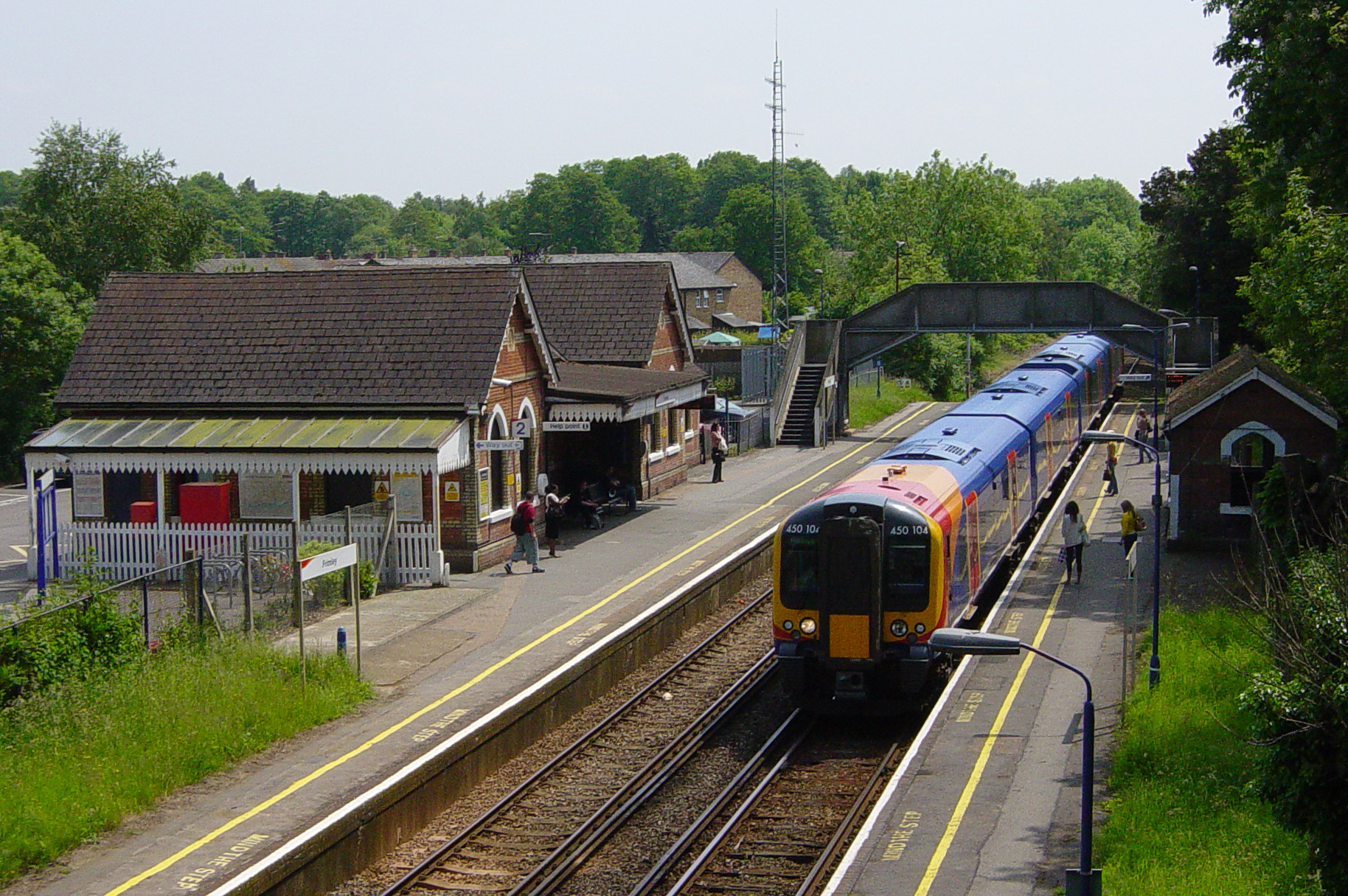 I took this photograph on 5th June 2006